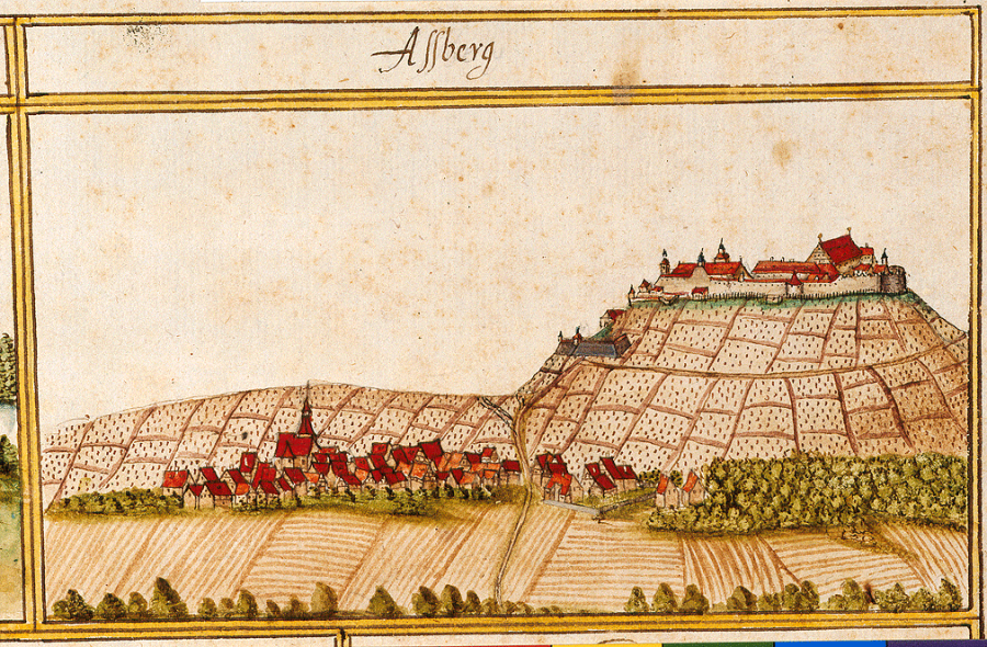 View of Asperg from the forest register books created by Andreas Kieser